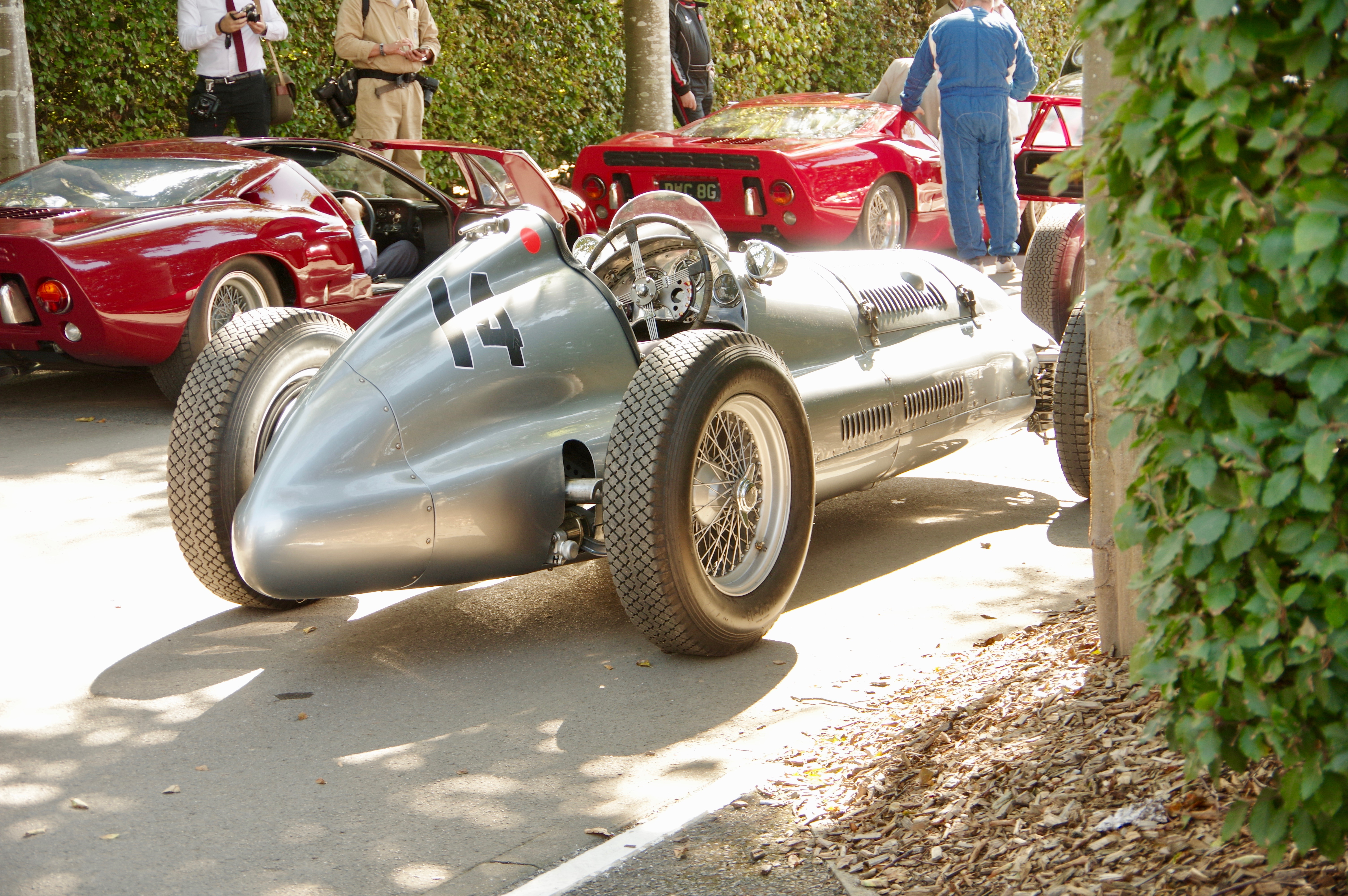 Goodwood Revival 2019 - Pre War Grand Prix Cars, 1939 Parnell Challenger.